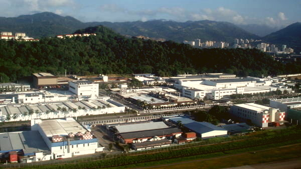 Aerial view of the Bayan Lepas Free Industrial Zone, as seen from a landing plane on its descent towards the Penang International Airport.